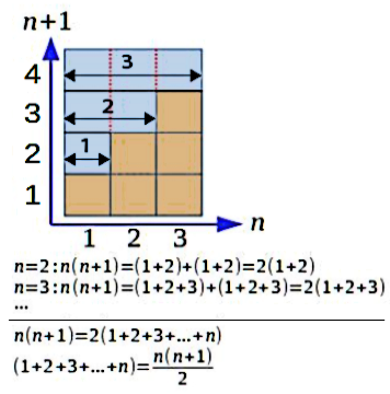 Alhazen's summation formula using area